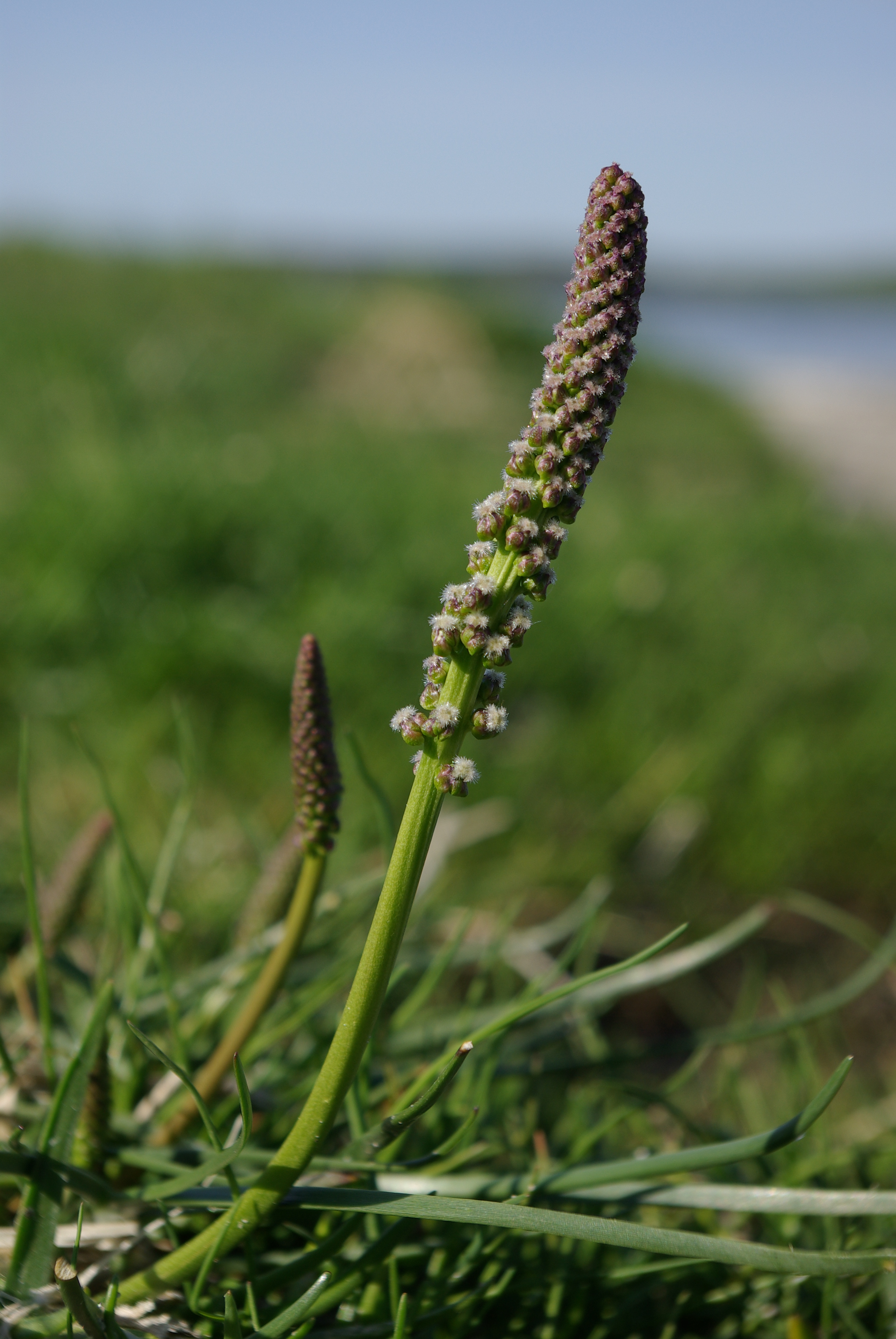 Seaside Arrowgrass (Triglochin maritima), salt marsh near Roskilde (Denmark)